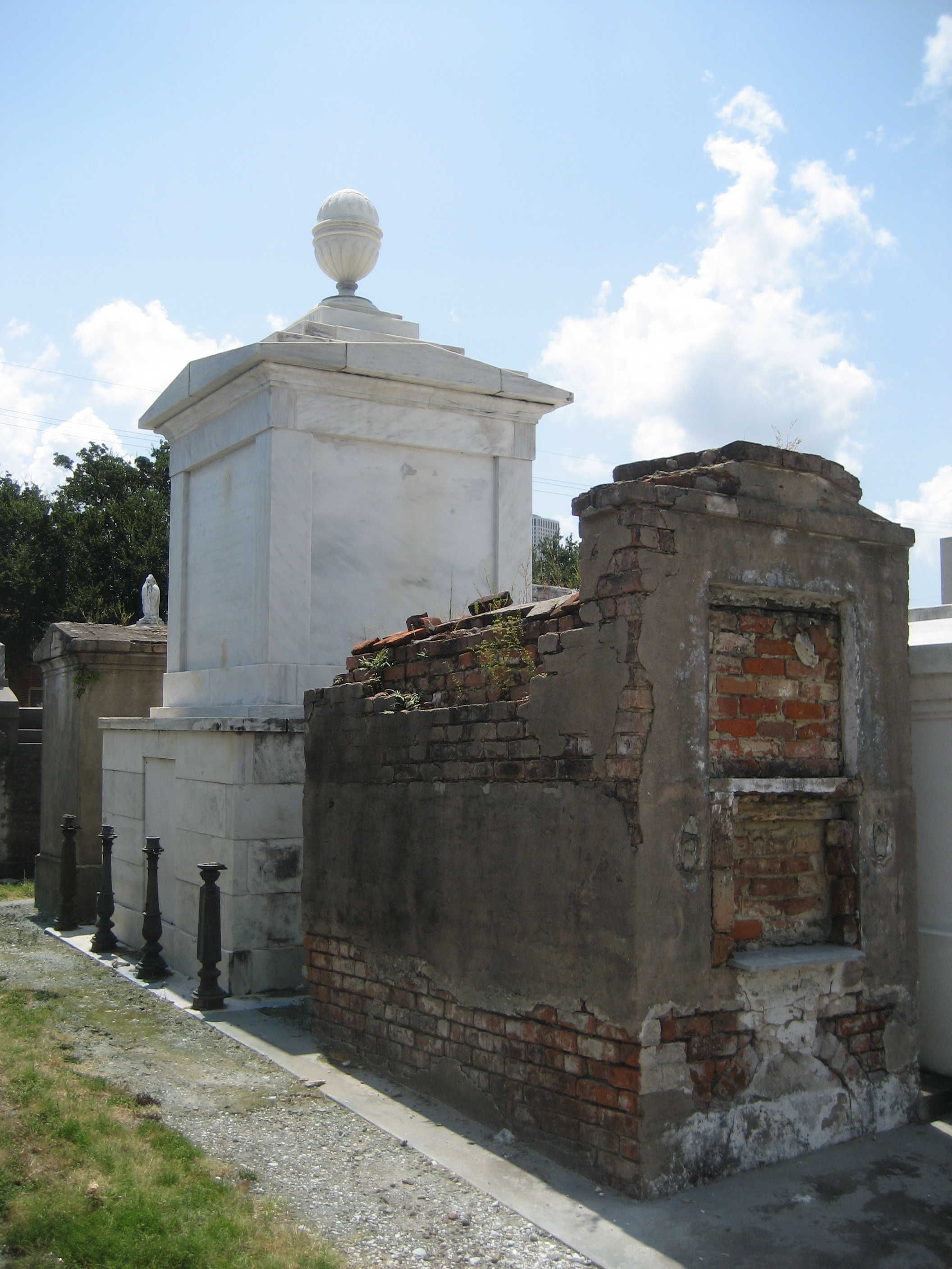 New Orleans: St. Louis Cemetery #2.